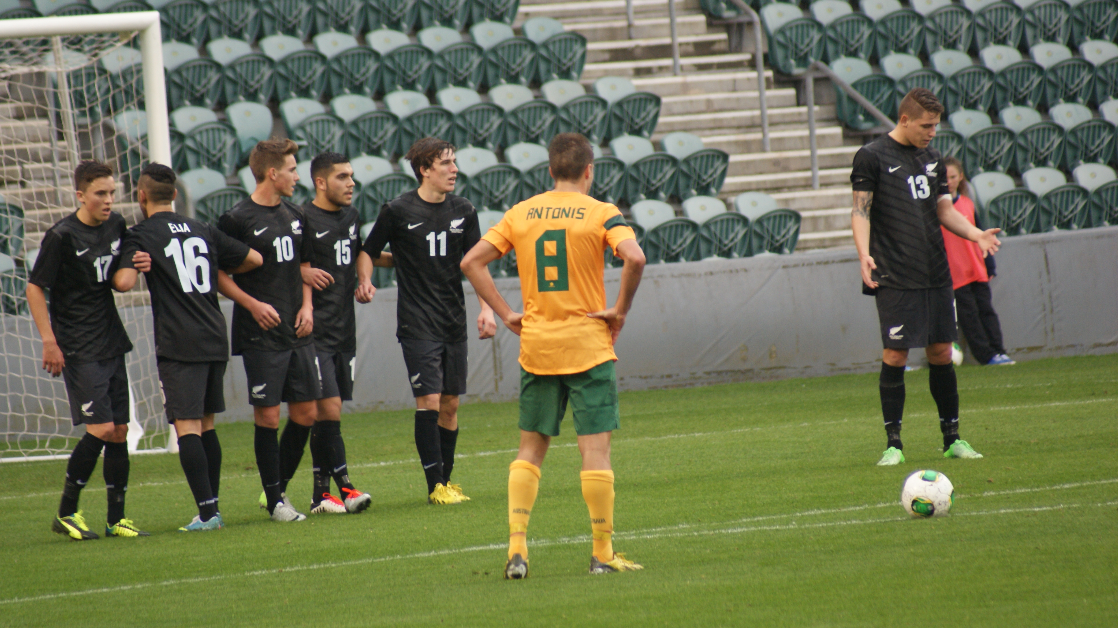 Young Socceroos vs New Zealand